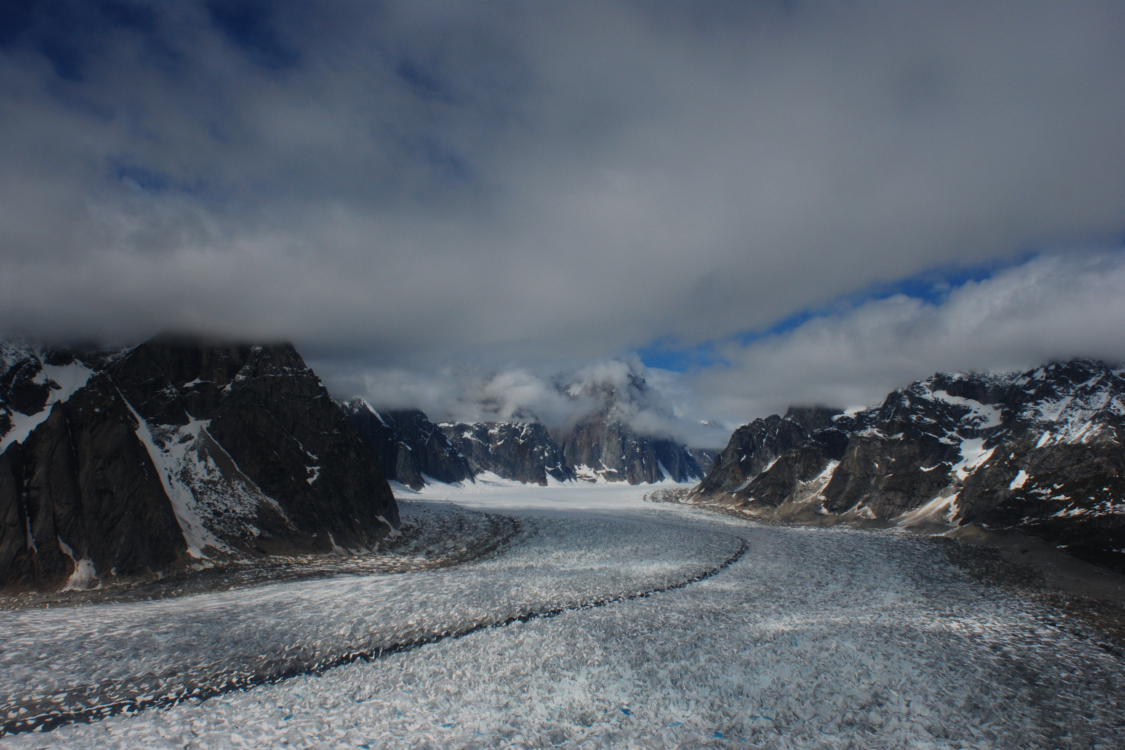 Ruth Glacier, Alaska